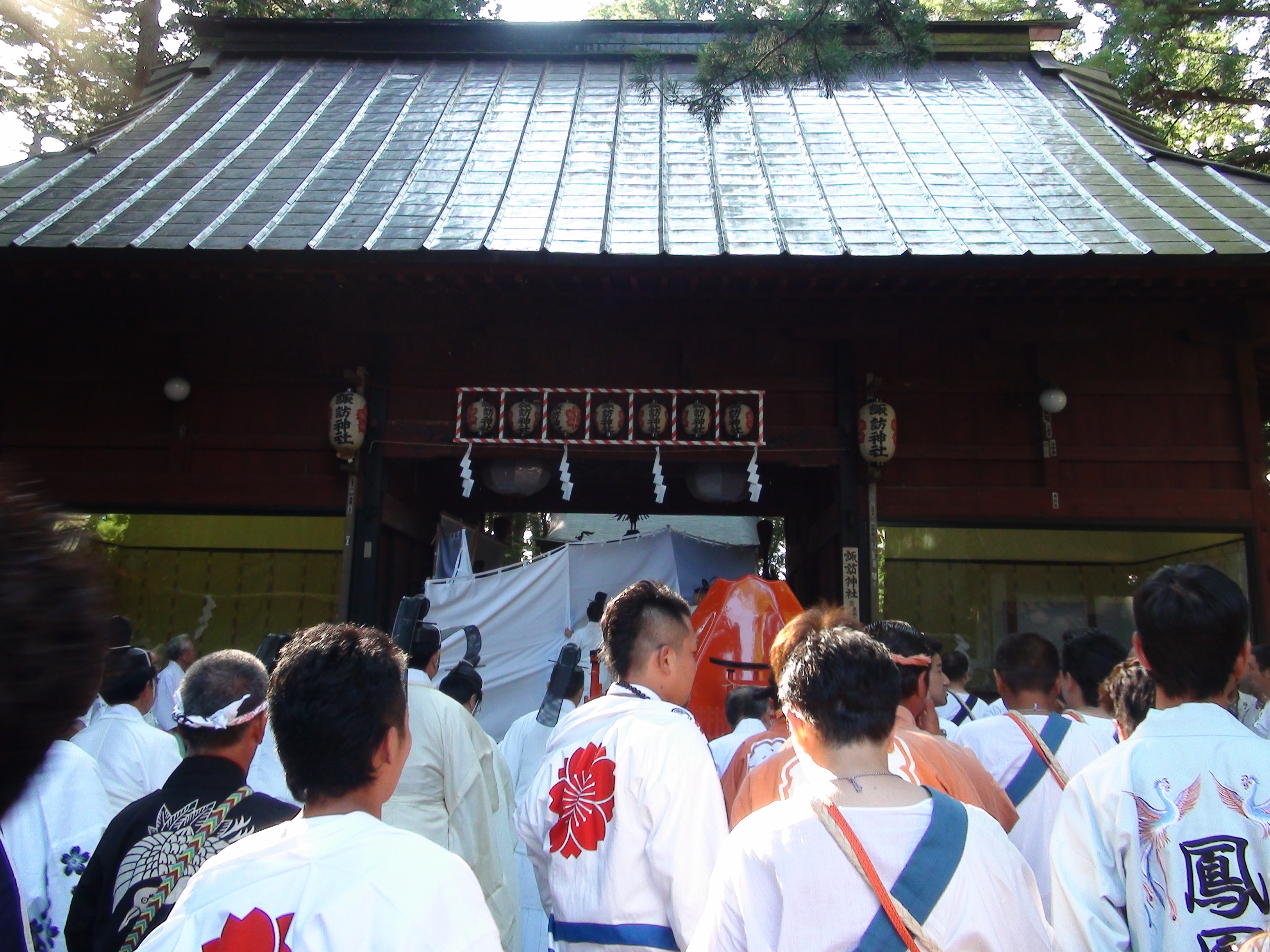 Transfer ritual of the Spirit Yoshida Fire Festival